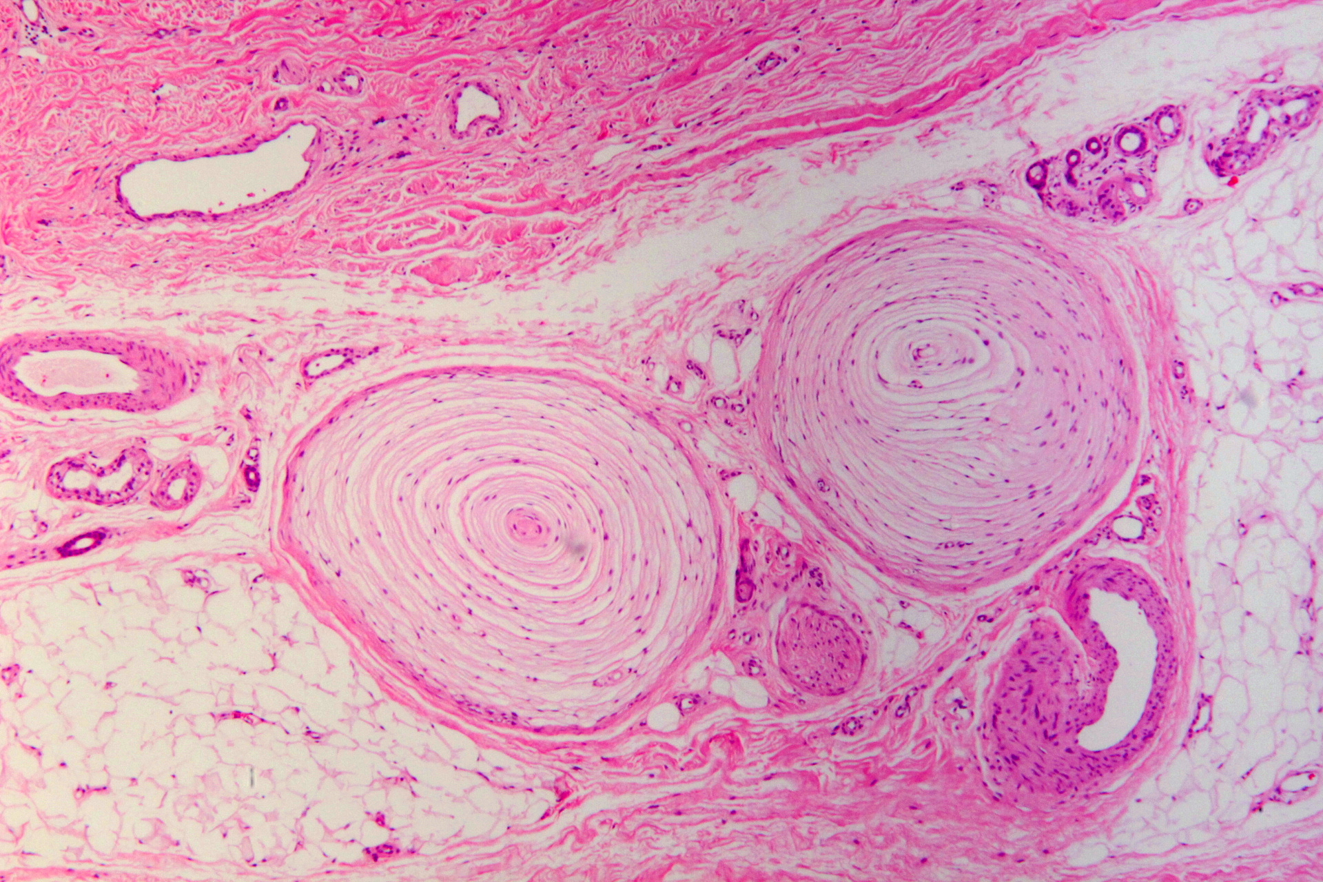 Lamellar corpuscle, Pacinian Corpuscle.